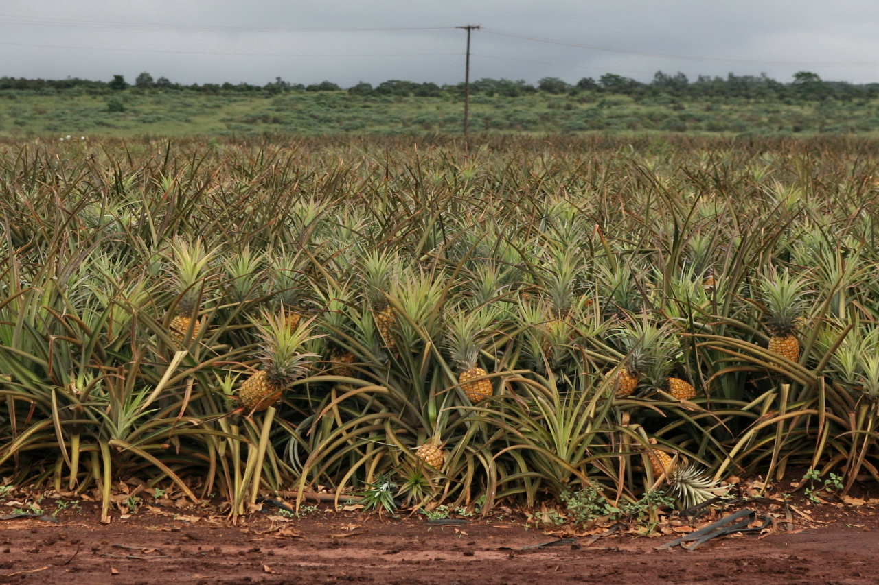 The leaves of the cultivar 'Smooth Cayenne' mostly lack spines except at the leaf tip, but the cultivars 'Spanish' and 'Queen' have large spines along the leaf margins. Pineapples are the only bromeliad berry/fruit in widespread cultivation. It is one of the most commercially important plants which carry out Crassulacean acid metabolism, or CAM photosynthesis.